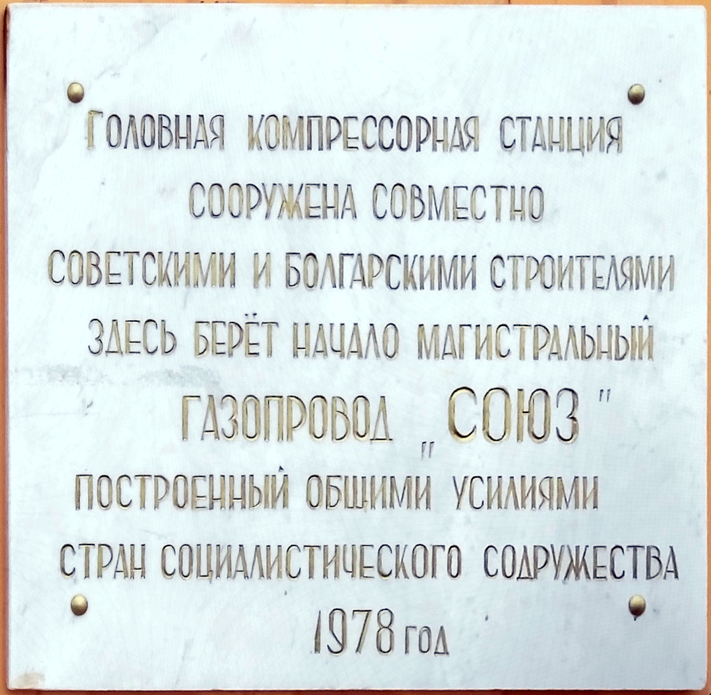 Orenburg gas field commemorative plaque